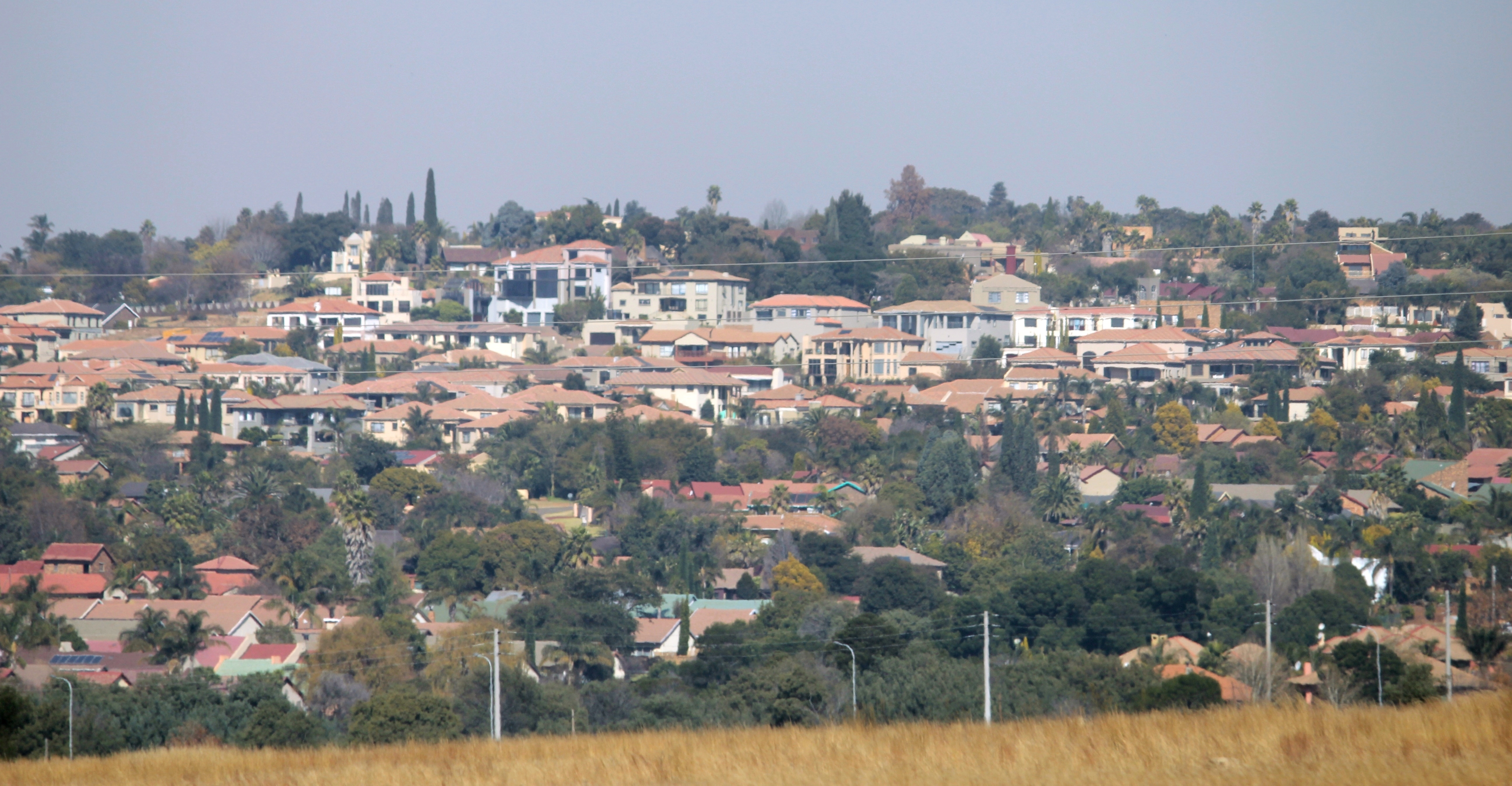 Reyno Ridge, a suburb of Witbank, Mpumalanga